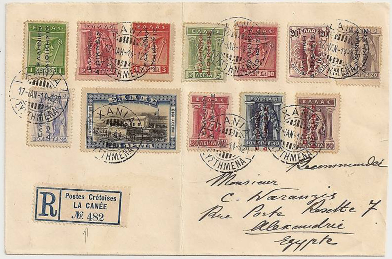 A philatelic cover posted fom Chanea, Crete to Egypt on January 17, 1914. The cover is stamped with a "Souda" issue 25 lepta stamp and with the small denominations stamps of "ΕΛΛΗΝΙΚΗ ΔΙΟΙΚΗΣΙΣ" (Hellenic Administration) overprints.